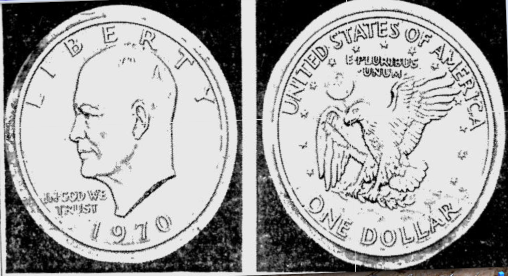 Original released design for the Eisenhower dollar. It is from a newspaper, however the newspaper notes that the photo is from the Treasury Department